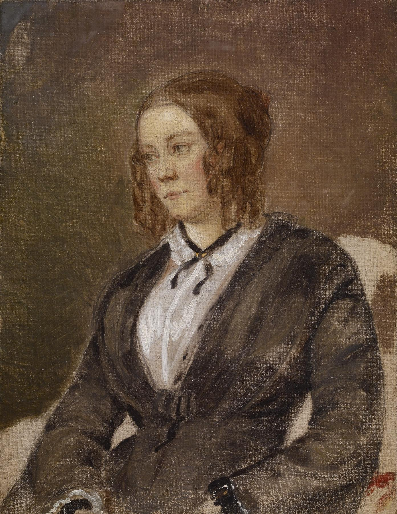 This portrait was found concealed beneath the canvas of the "Self-Portrait" (Walters 37.2645), attached to the same stretcher. The subject may be Antoinette Schnitzler, Woodville's second wife. The couple had two children, one of whom, Richard Caton Woodville, Jr. (1856-1927), became a noted British artist specializing in military subjects.